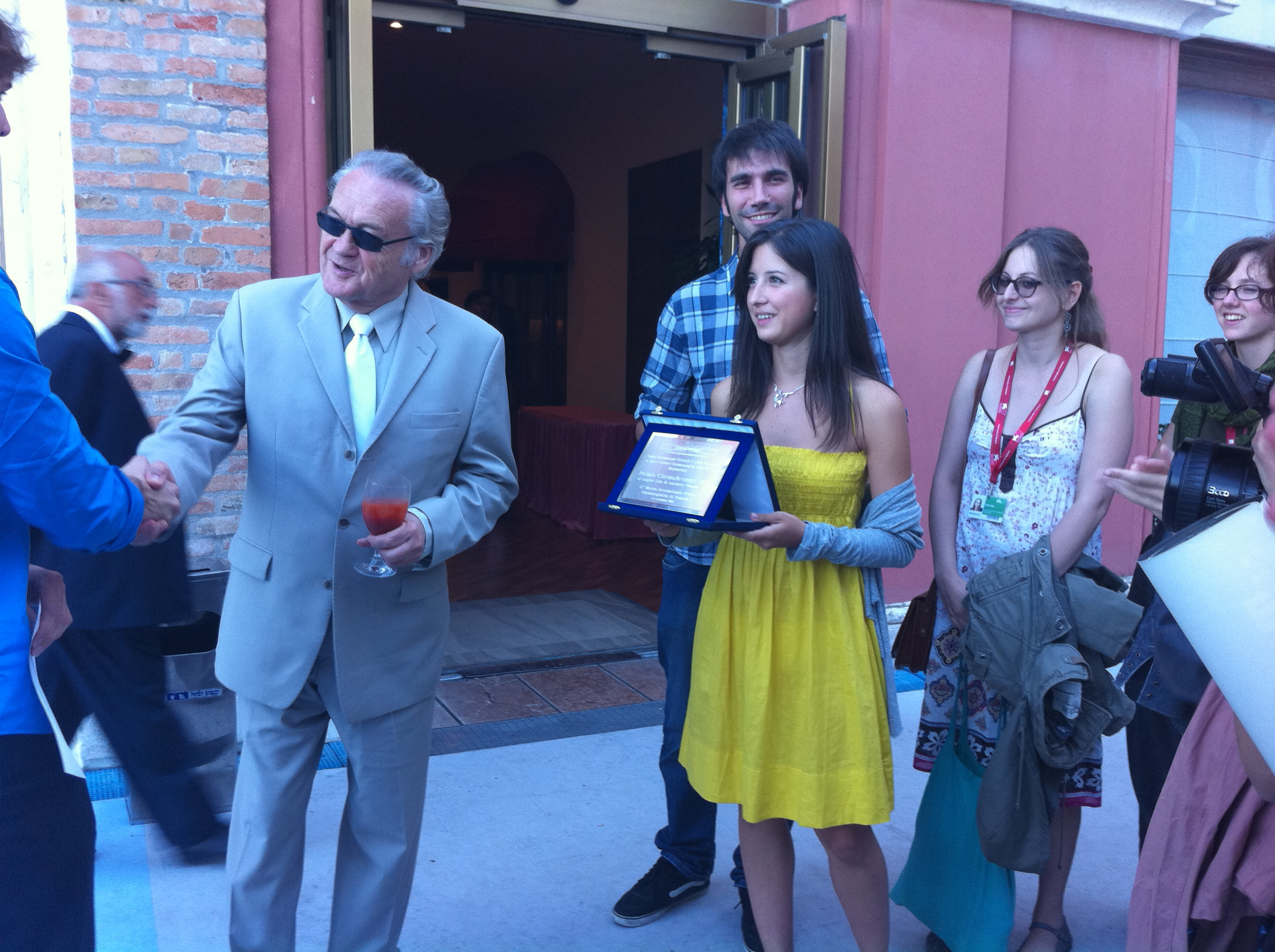 Director Jerzy Skolimowski accepts the CinemAvenniere Award at the 2010 Venice Film Festival